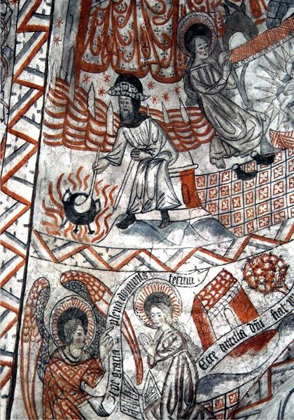 Frescoes by The Isefjord Master from apr. 1460-1480 in Tuse Kirke (church)